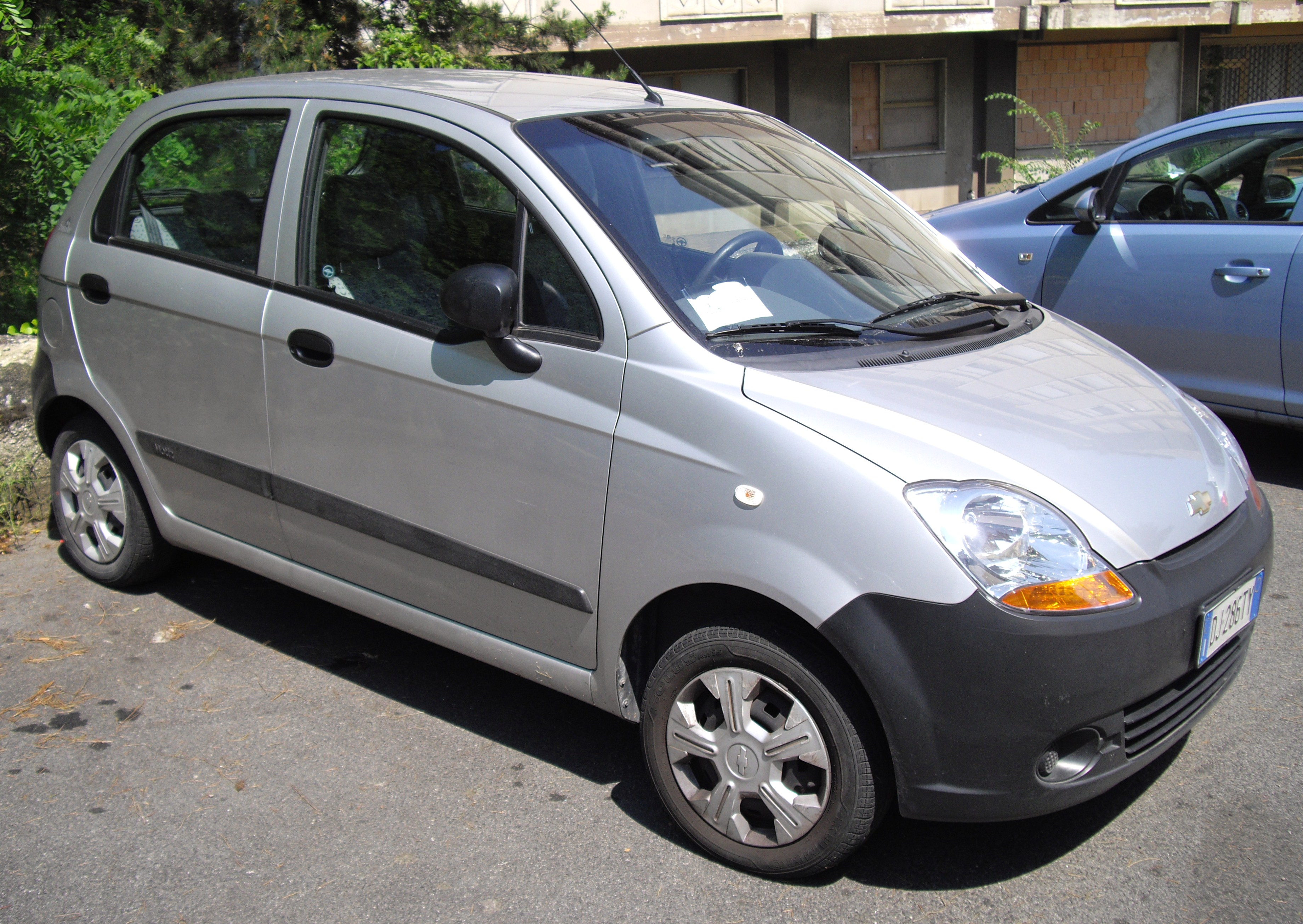 2006 Chevrolet Matiz M200